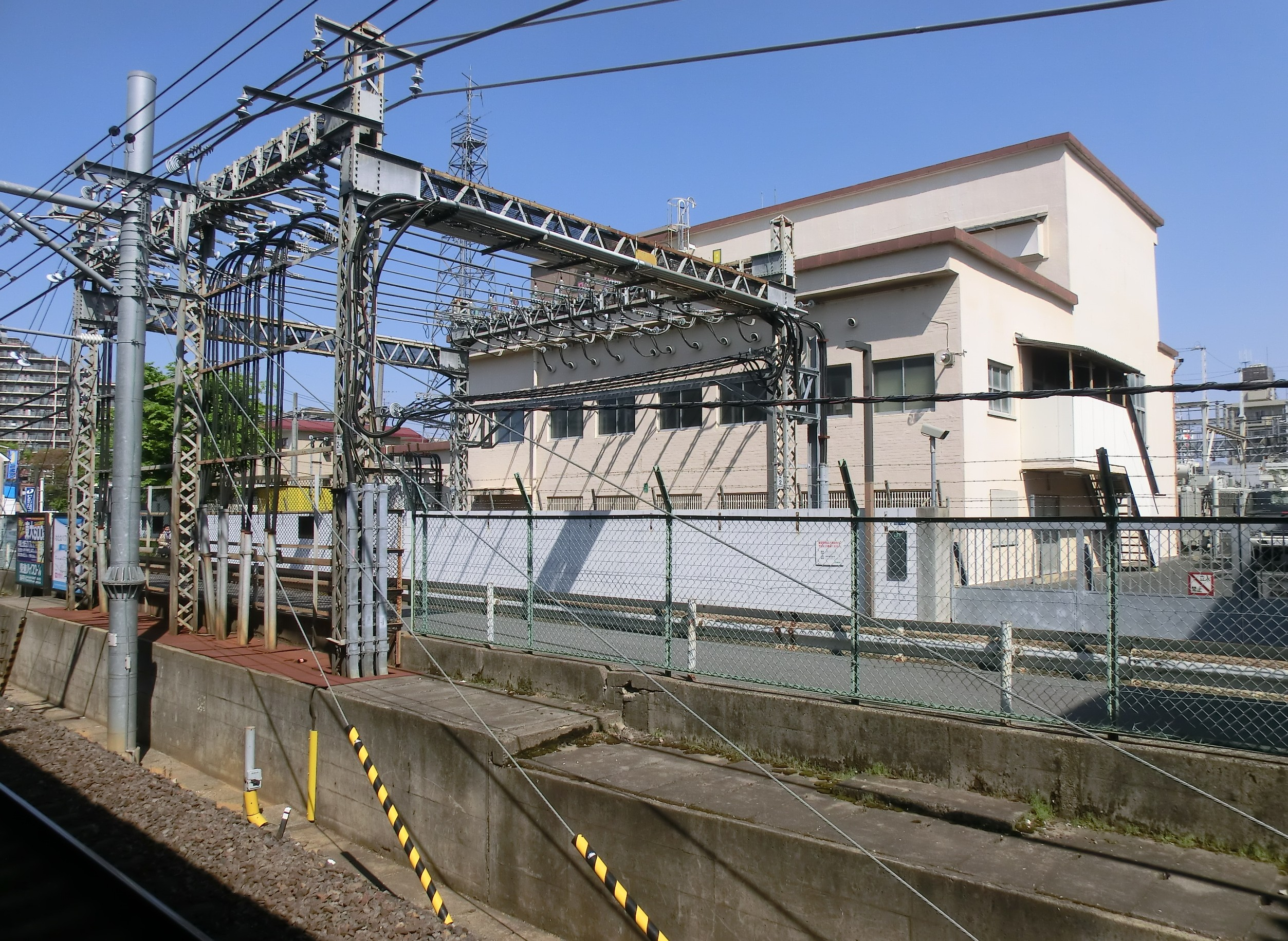 Abiko Electrical Substation